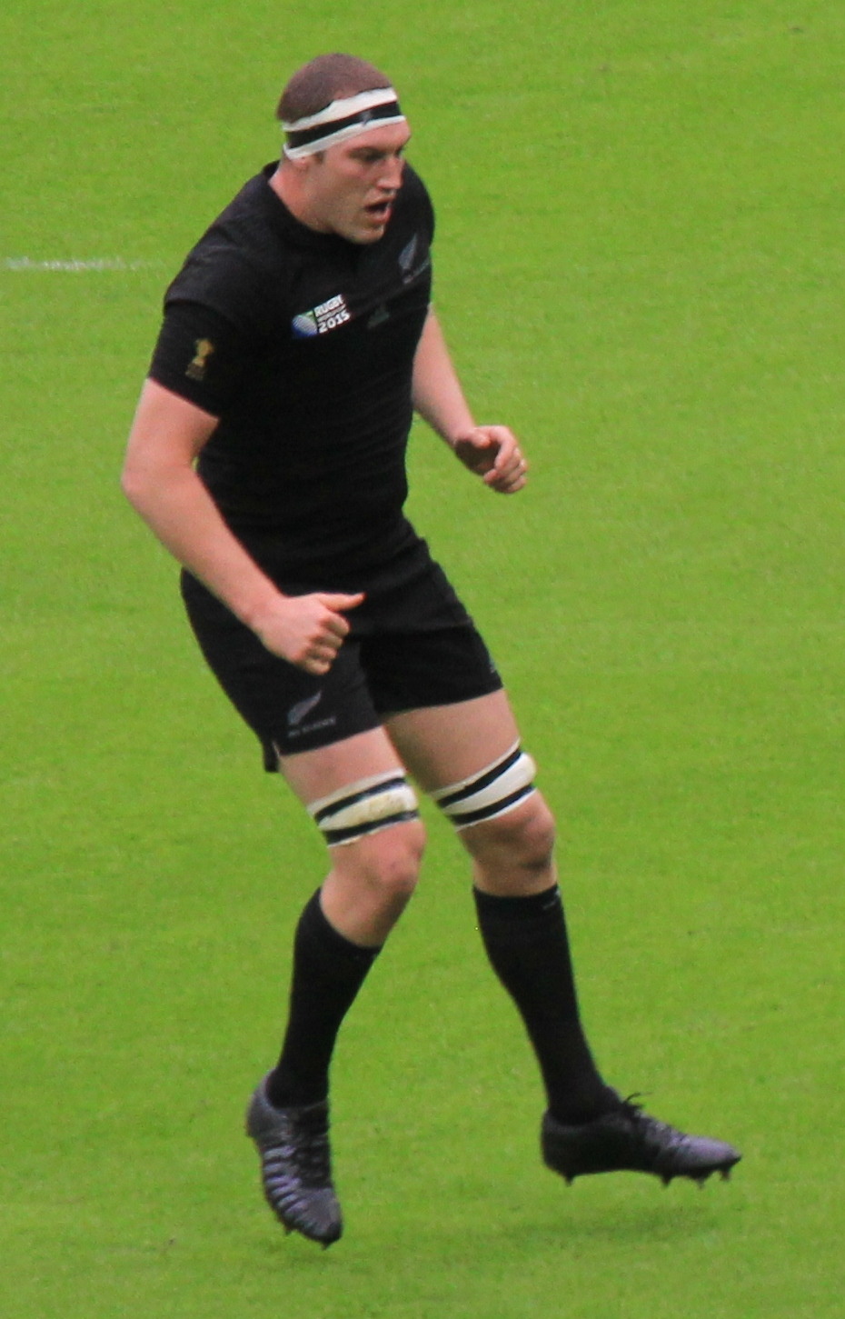 15-09 RWC New Zealand vs Argentina 039